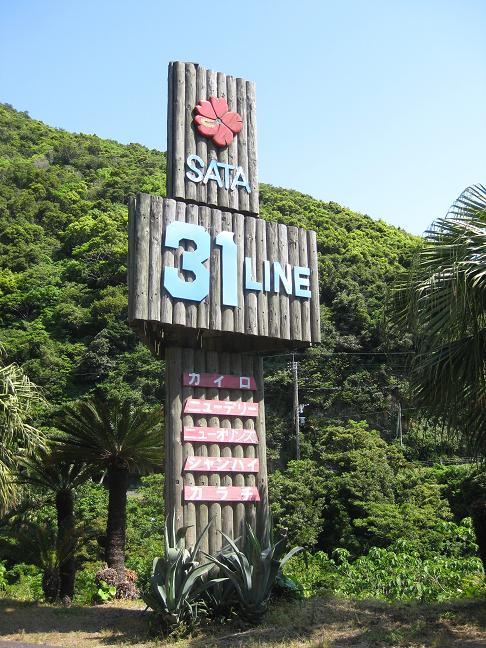 Satamisaki at 31 degrees north.